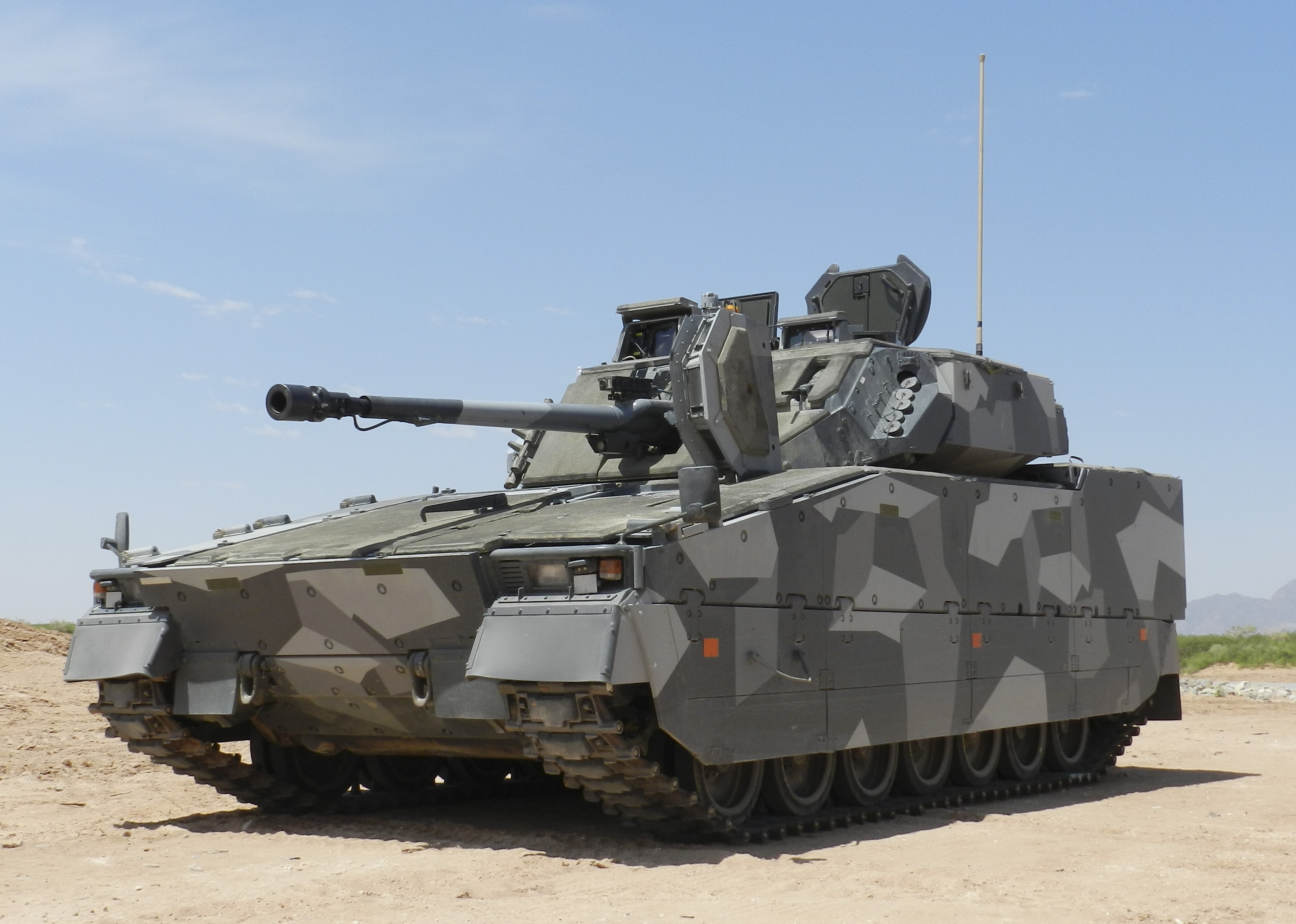 A Swedish CV-9035 that is one of five vehicles being assessed during the Army's Ground Combat Vehicle Non-Developmental Vehicle Assessment effort at Fort Bliss and White Sands Missile Range.